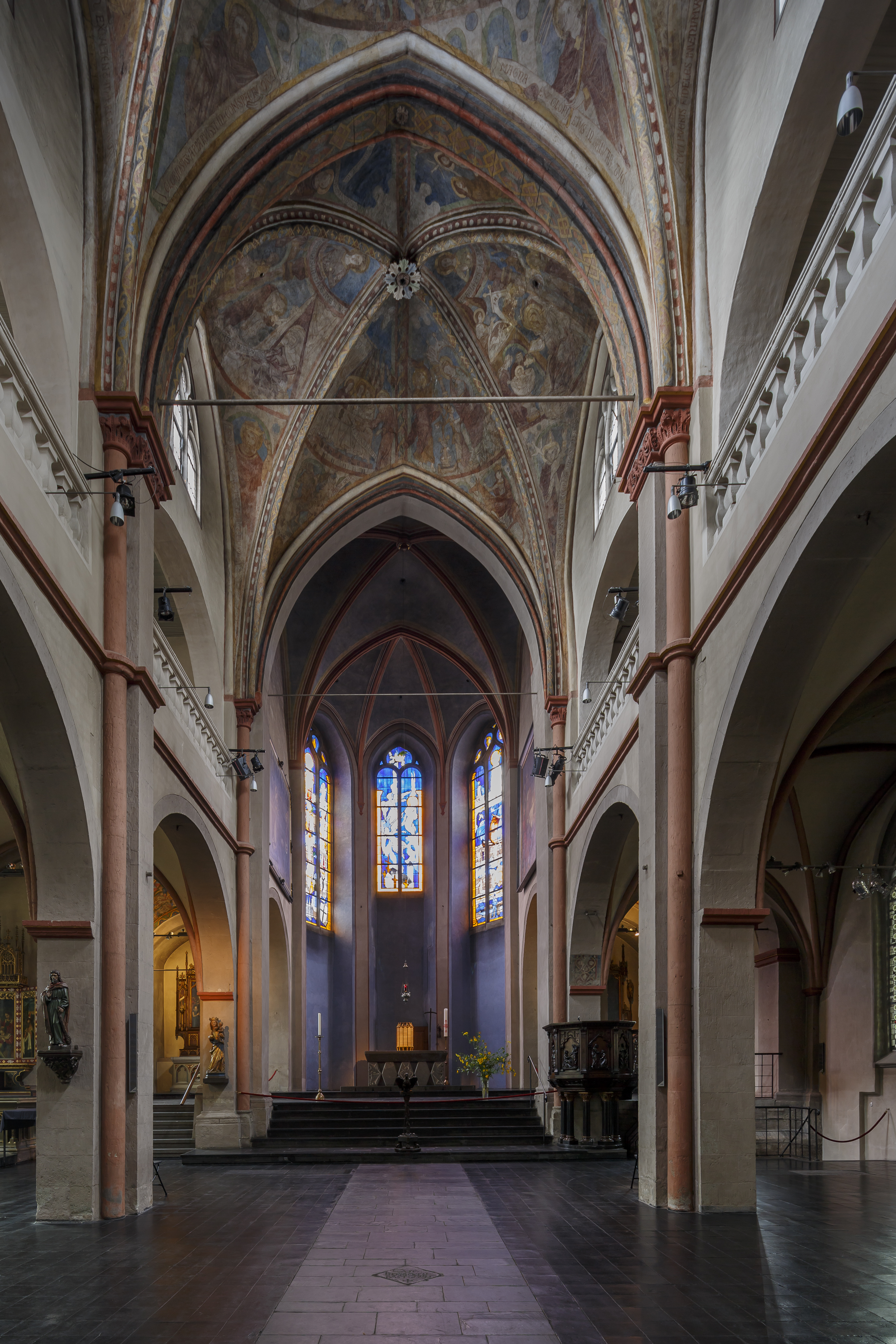 Cologne, Germany: Interior of St. Maria Lyskirchen (Köln)